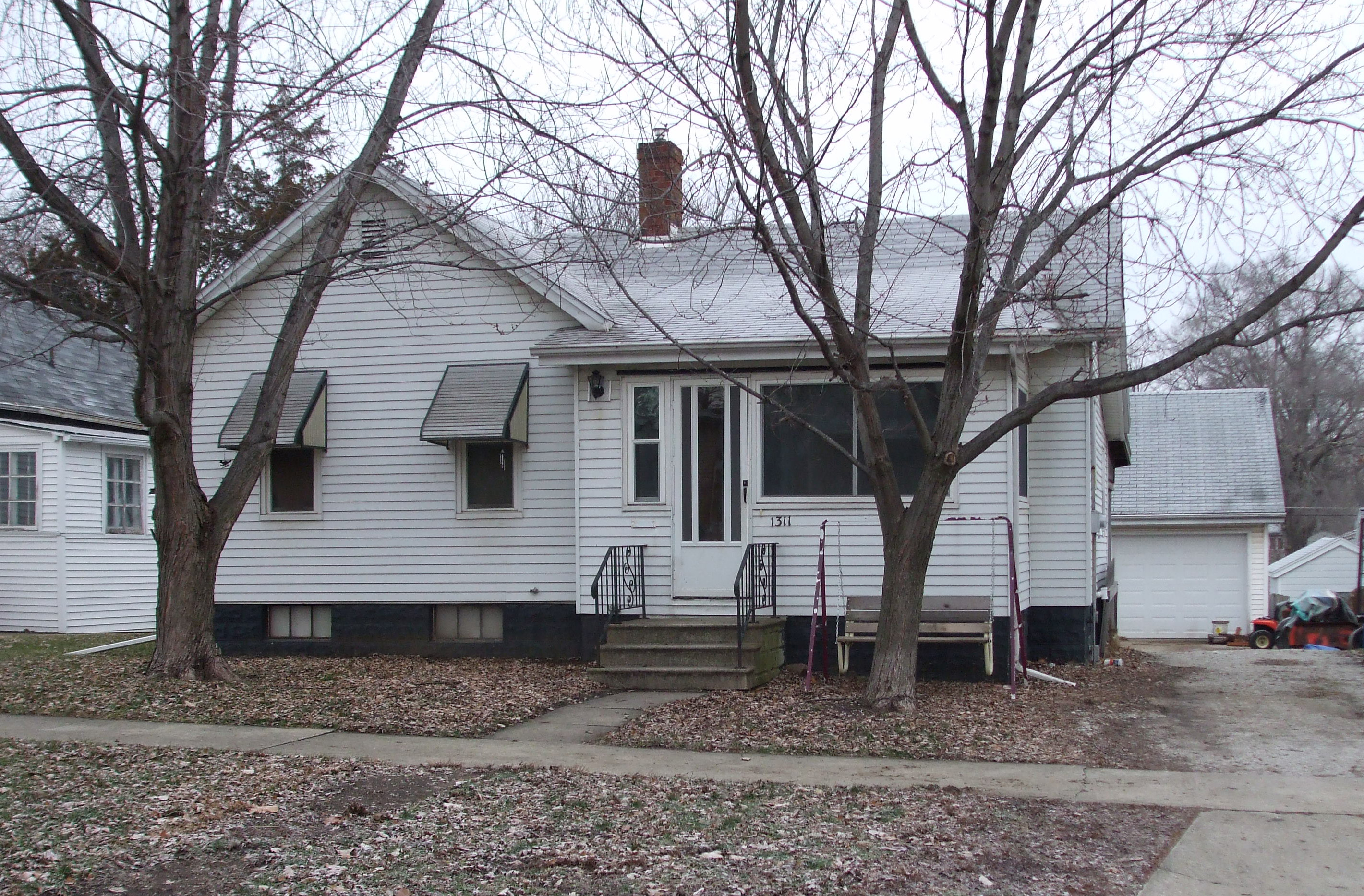 Childhood home of DW Tracy, IBEW leader. 1880s childhood home of Daniel W. Tracy (1886–1954), IBEW leader: located at 1311 W. Walnut Street, Bloomington, Illinois. Tracy was also an federal assistant Secretary of Labor and on the American Federation of Labor executive council.